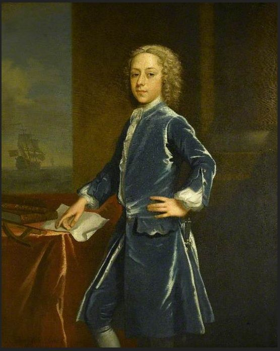 "Midshipman Thomas Frankland", 1731 Portrait painted by Jeremiah Davison (c.1695–1745) Oil on canvas Size 124.5 cm x 99.1 cm Subject: 13-14 years old Sir Thomas Frankland, as a young cadet of the Royal Navy. Frankland became later a slave trader and member of the British parliament. He entered the navy same year the painting was made. His highest rank was Admiral of the White.